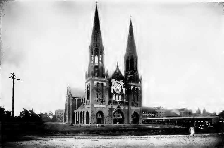 St Mary Cathedral, Rangoon